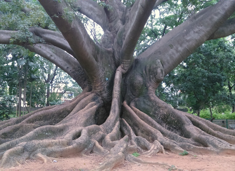 Banyan Tree at Lalbagh in Banglore